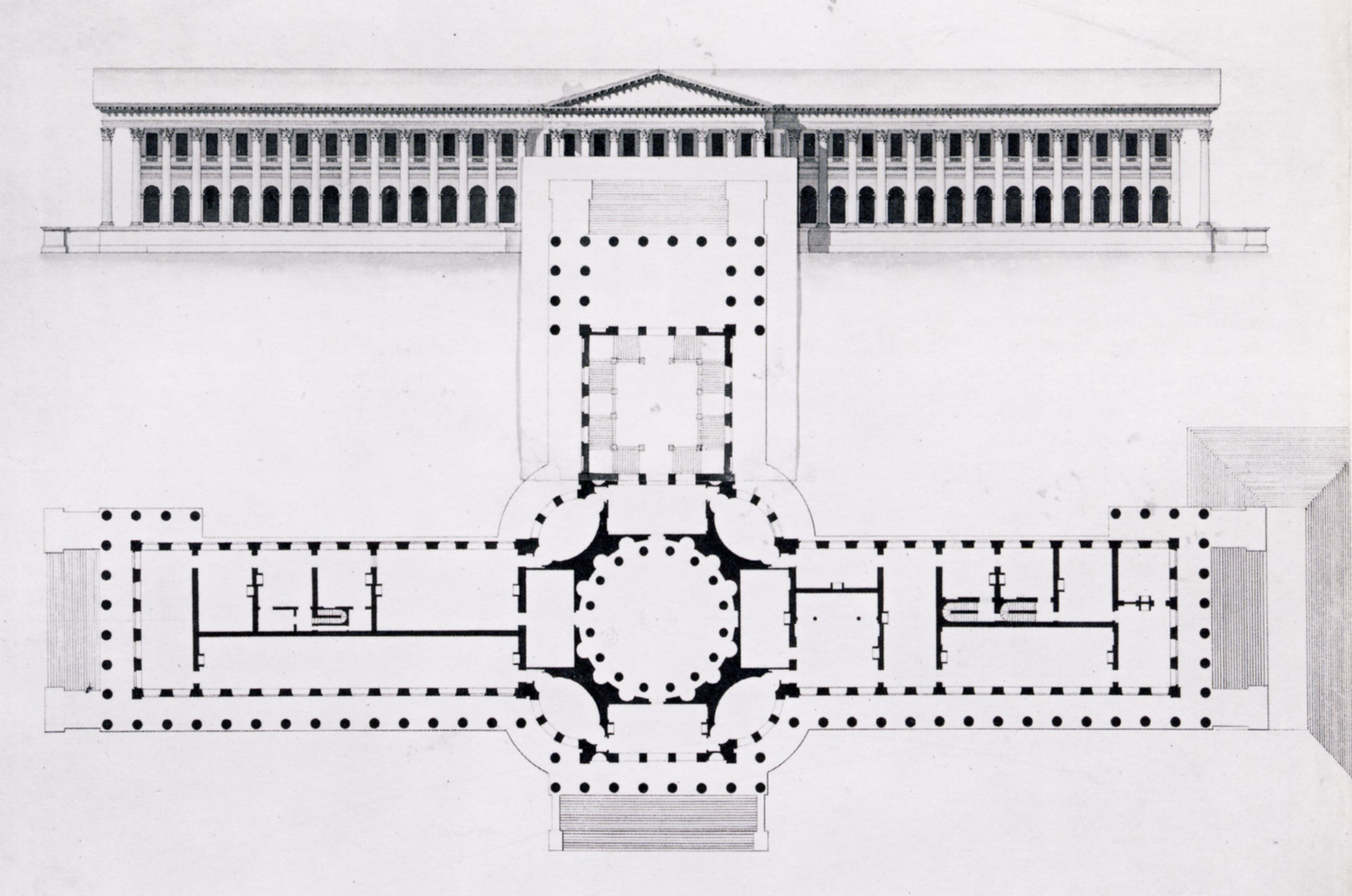 The drawings for the large castle at Haga outside Stockholm. The project was cancelled after the murder of king Gustav III in 1792